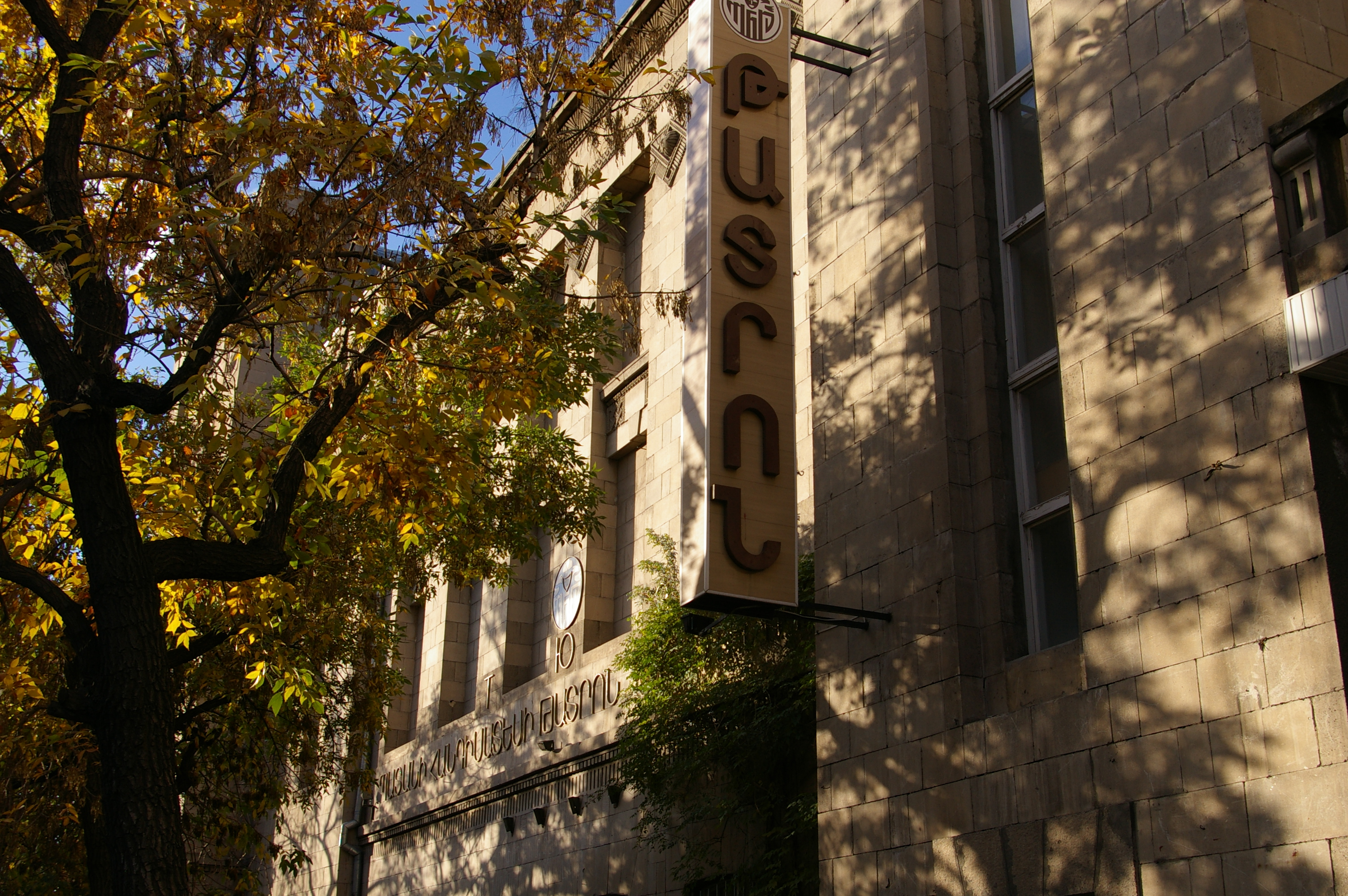 The Young Attendent's Theatre in Yerevan.